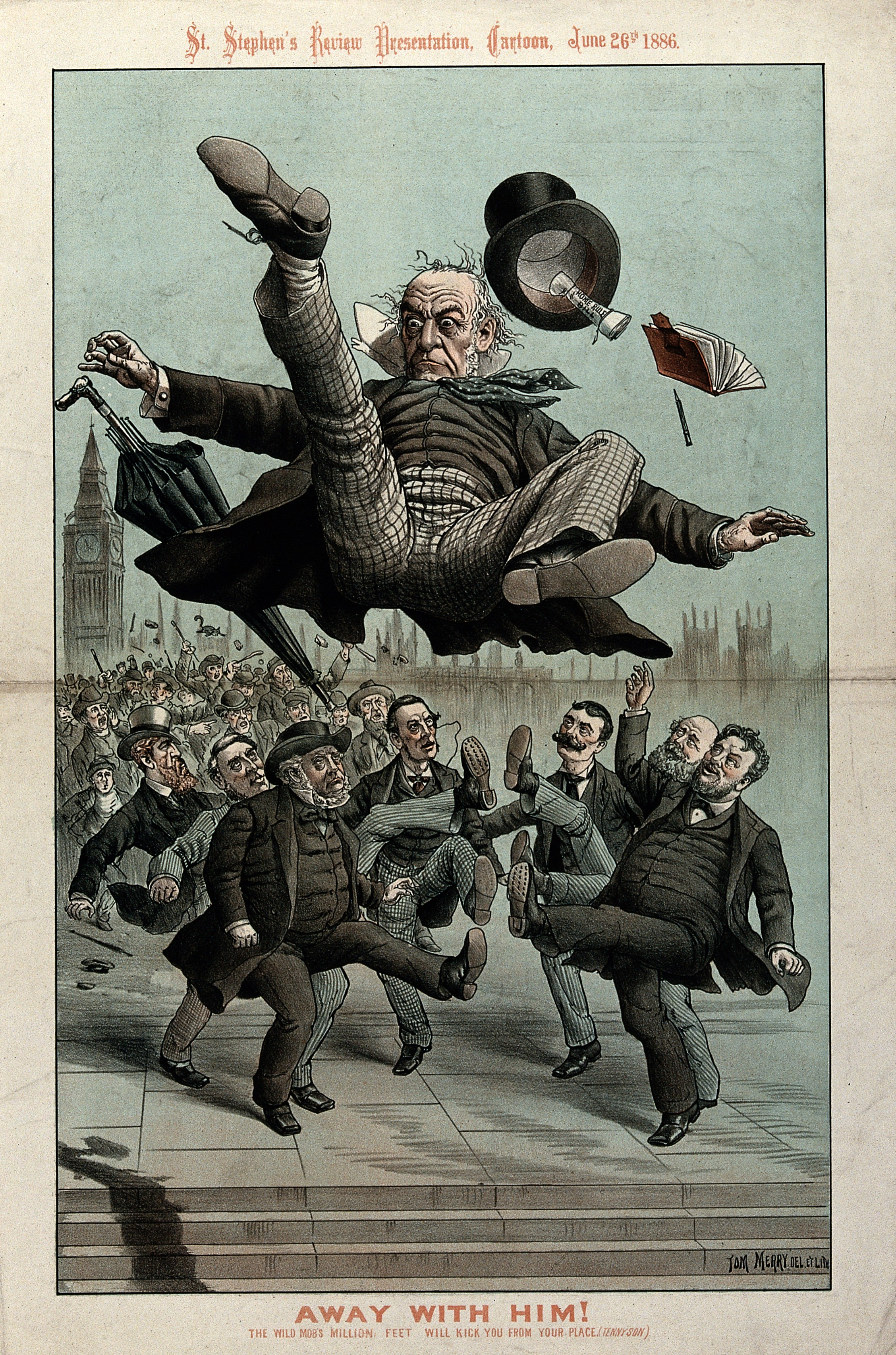 A political cartoon showing men kicking Gladstone and the Home Rule bill in the air; Big Ben and the Palace of Westminster Houses of Parliament can be see in the background. "Away with him" Iconographic Collections Keywords: Politician; William Ewart Gladstone; Satire; Kicking; London; Cartoon; Tom Merry